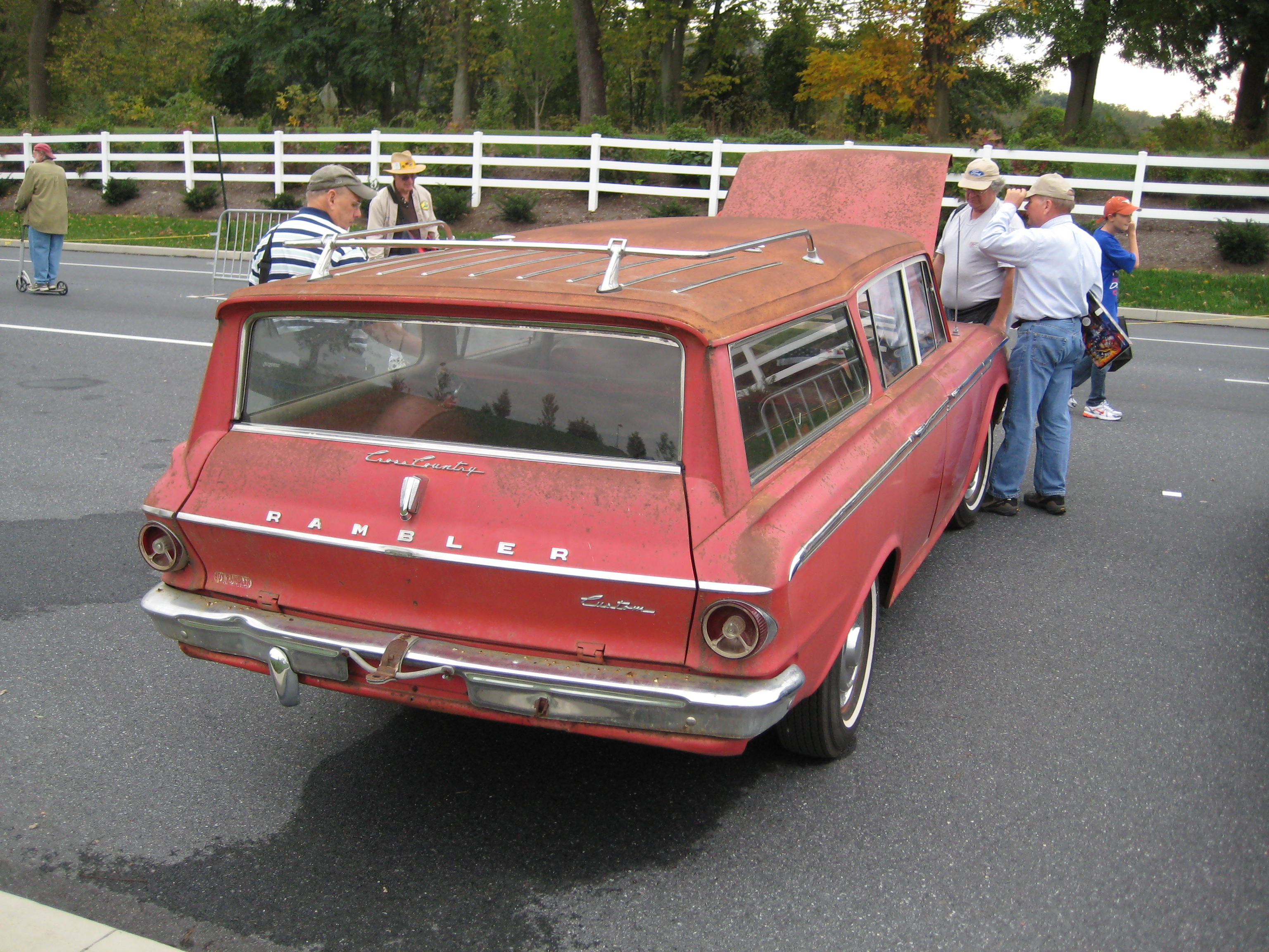 1962 Rambler Classic Cross Country wagon.